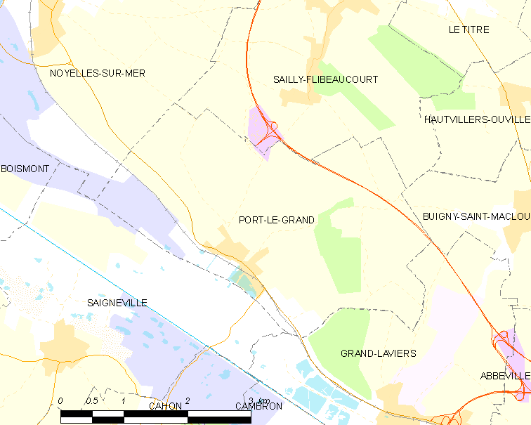 Map of French municipality Port-le-Grand